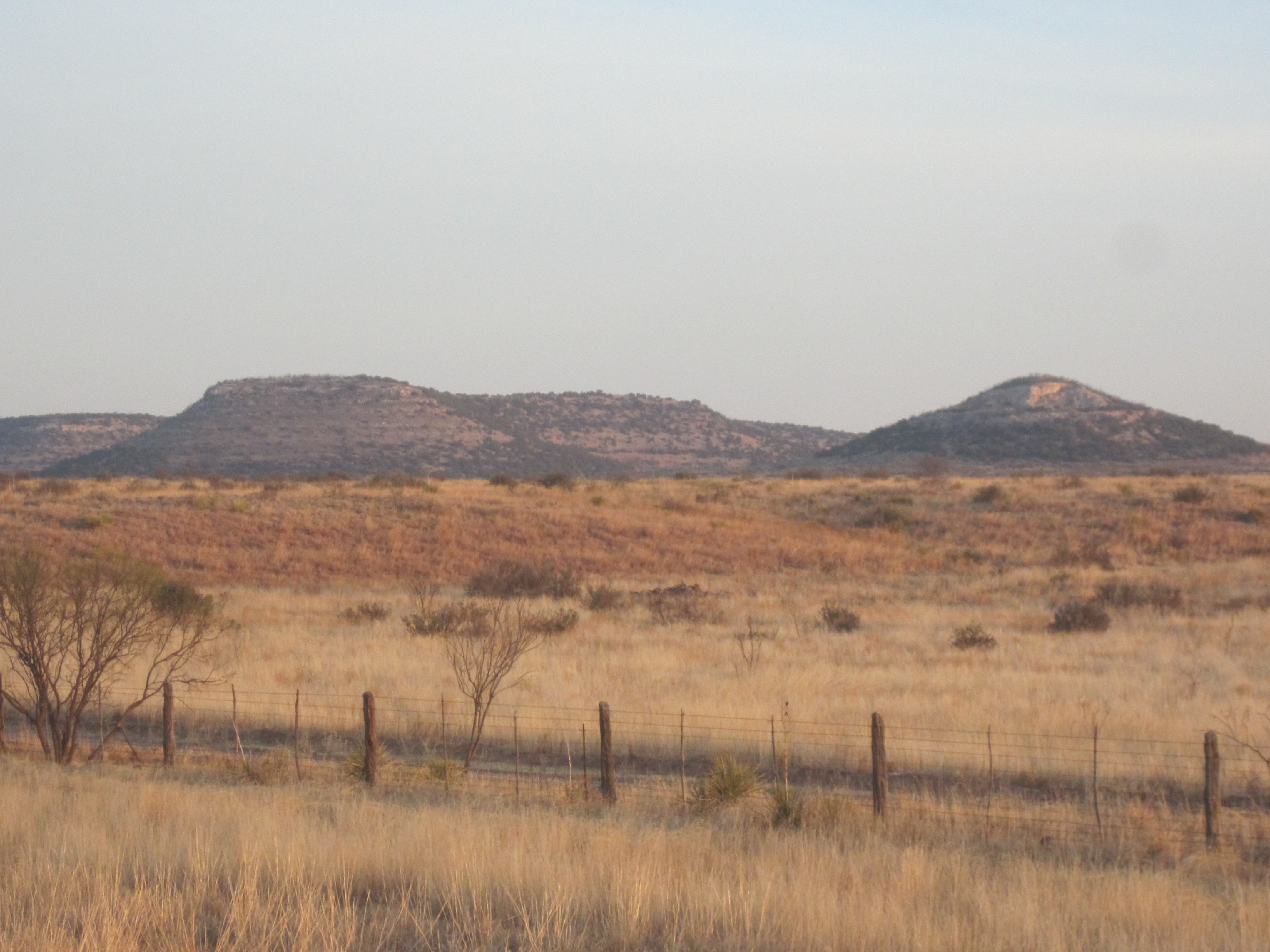 I took photo with Canon camera in Tom Green County, TX.